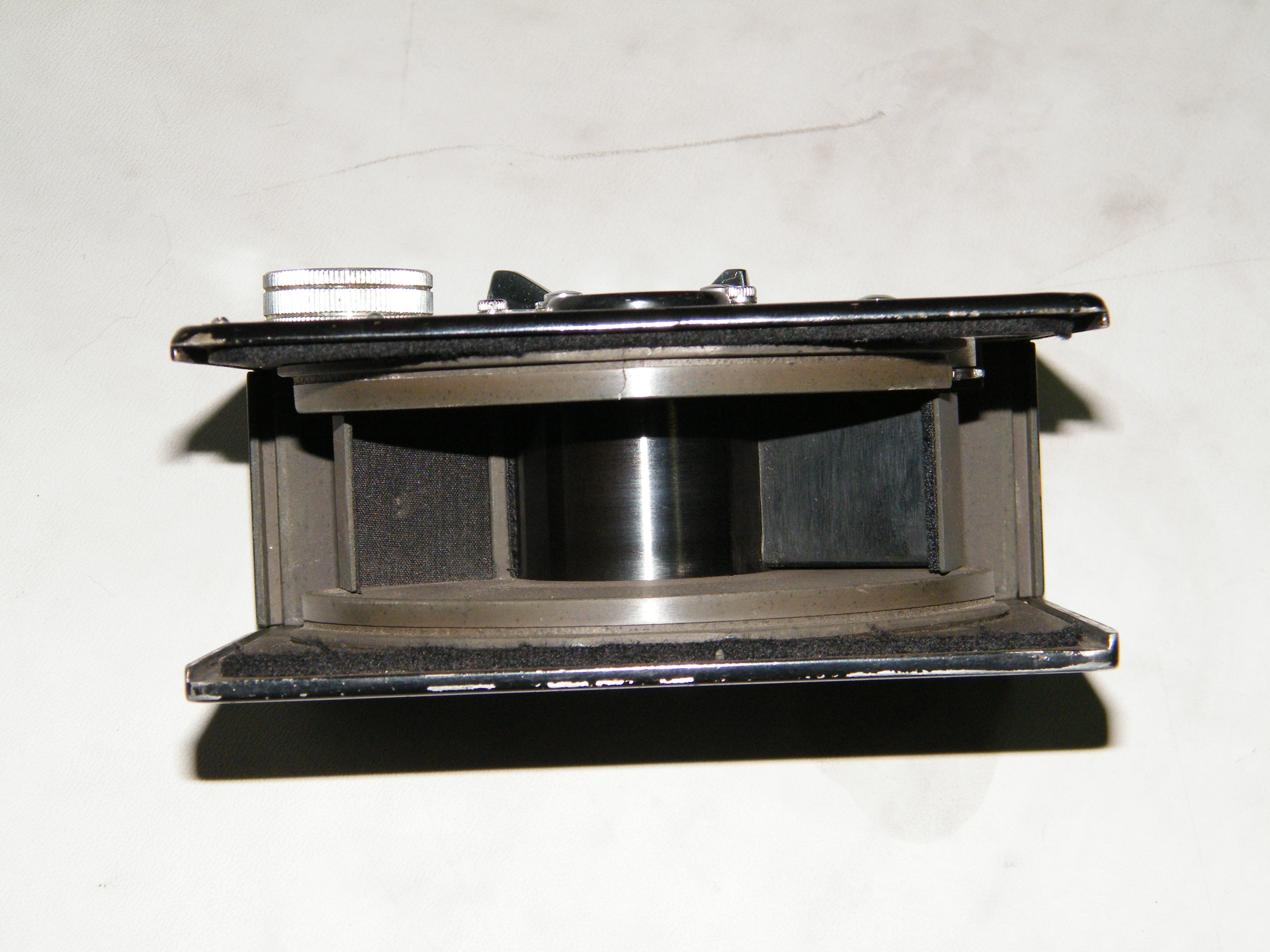 FT-2 Soviet panoramic camera from collection Evgeniy Okolov